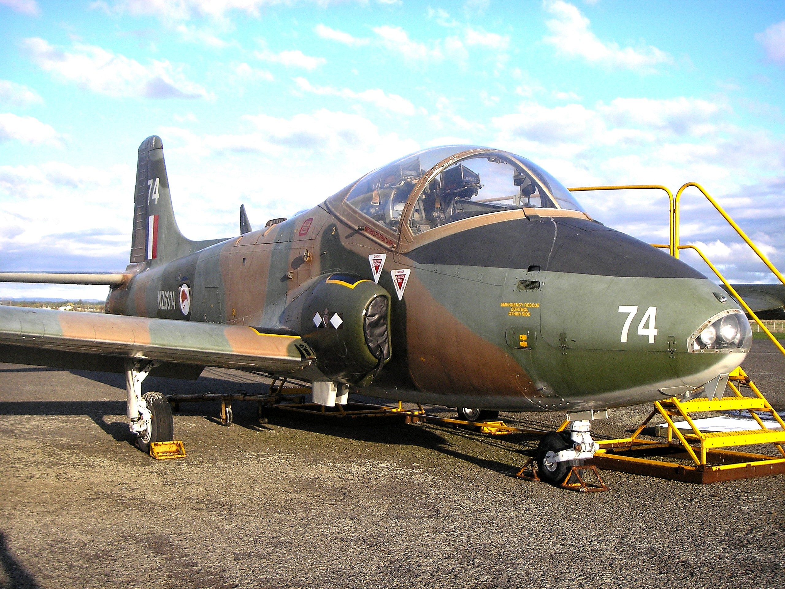 A BAC Strikemaster of the RNZAF, stored outside at Ohakea, photographed in May 2007, 14 years after the type was retired.